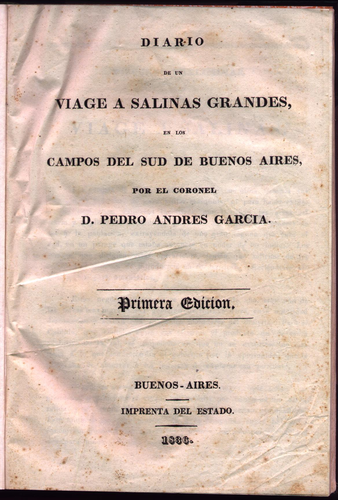 Es la portada de la primera edición de este libro escrito por Pedro Andrés García y publicado por Pedro de Angelis en 1836